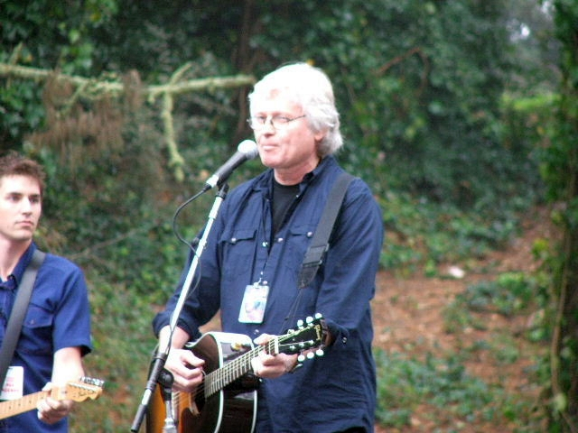 Hardly Strictly Bluegrass Festival 2005. Golden Gate Park - San Francisco, CA. Photo by Ron Baker.